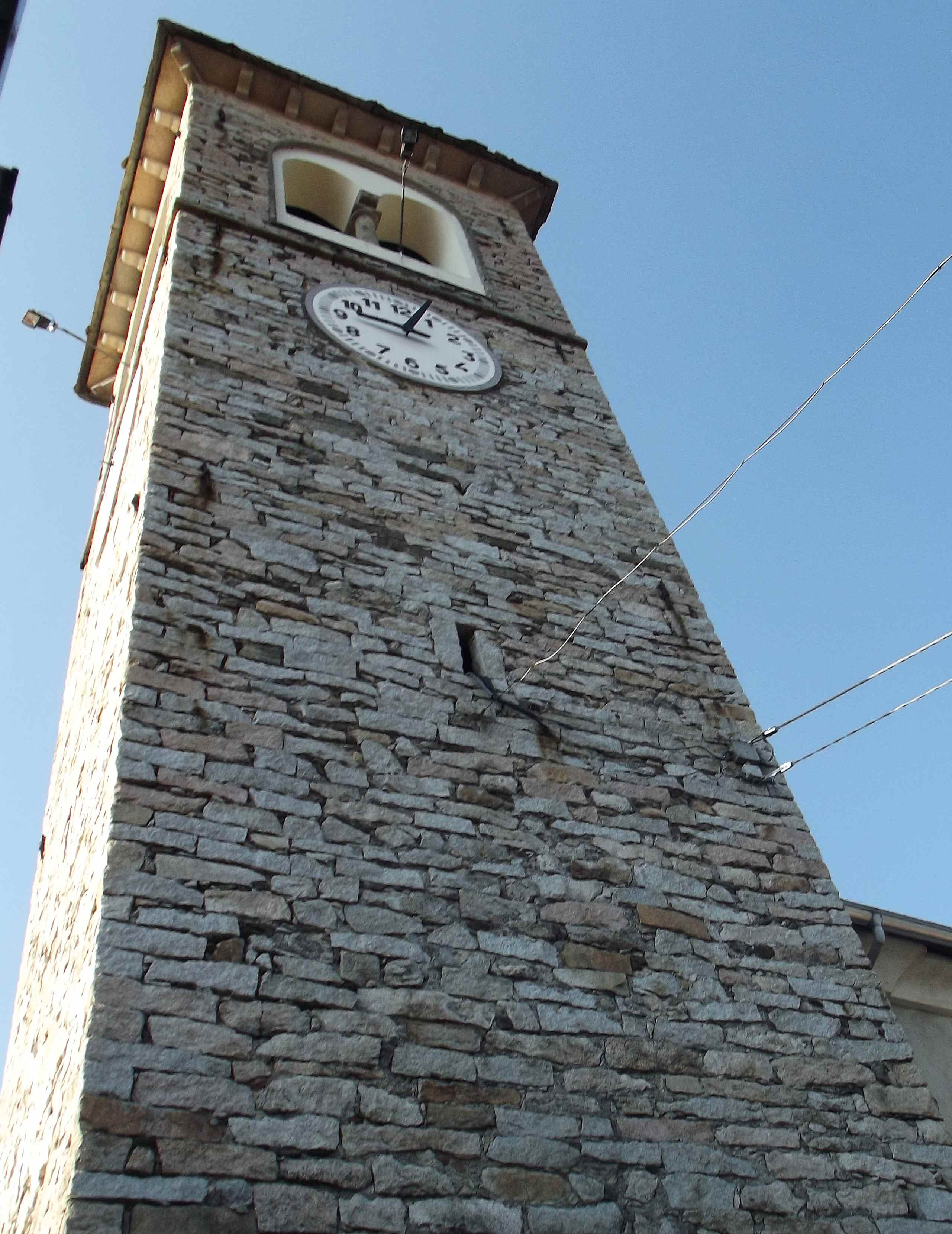 Flecchia (Pray, BI, Italy): bell tower